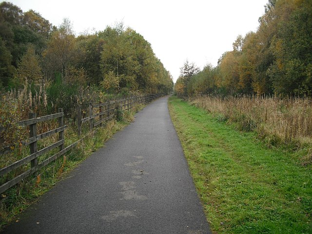 Site of Oakley Station The old railway is wide here, as there was a marshalling yard and a junction with a mineral line to a coking plant and Comrie colliery. No sign of the graffiti that was all over the road the last time I was here.